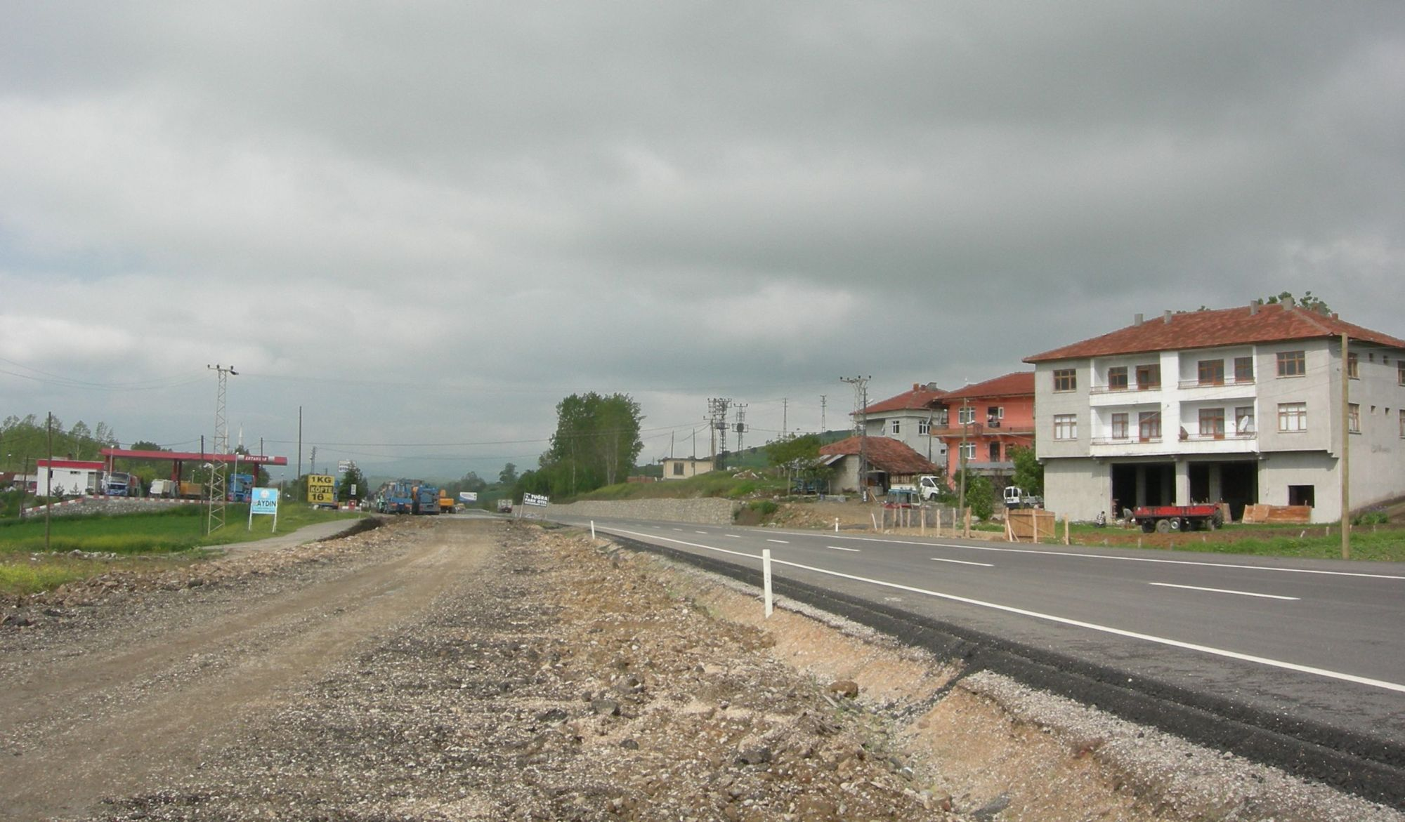 E95 European highway near Havza, between Samsun and Merzifon, Turkey, under 4-lane (dual 2-lane) construction